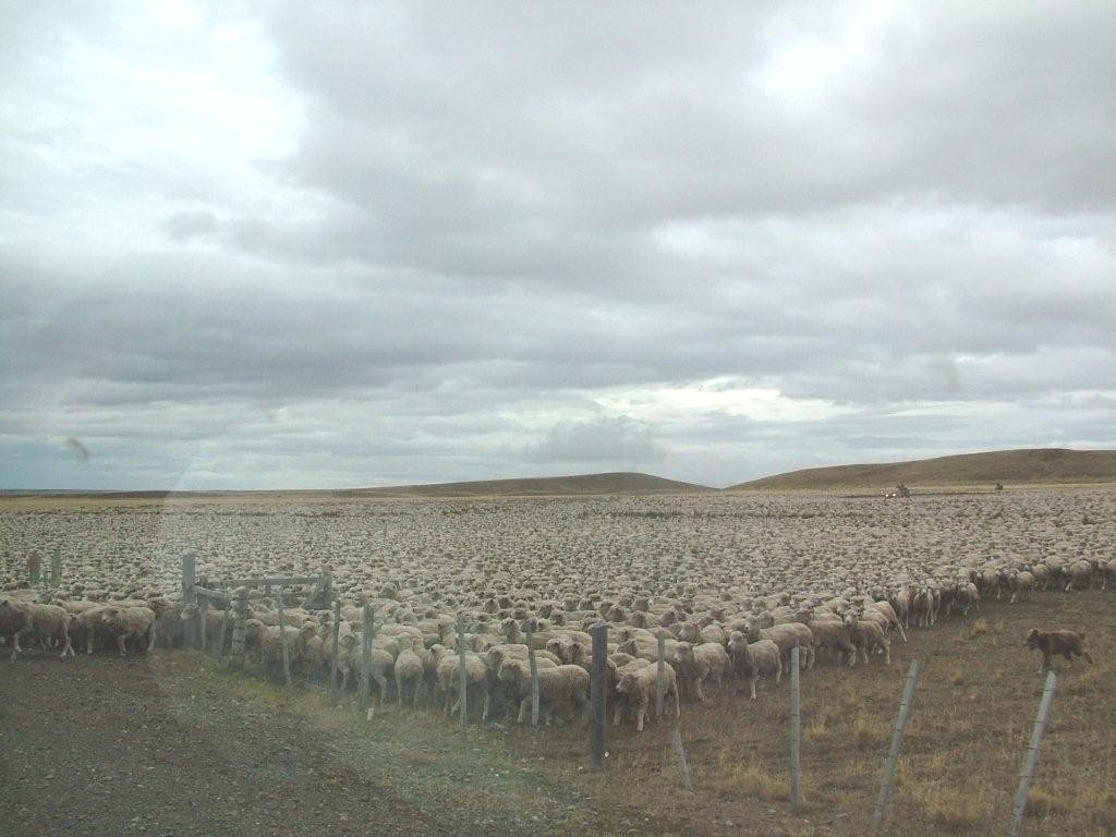 Corriedale as livestock, in Patagonia